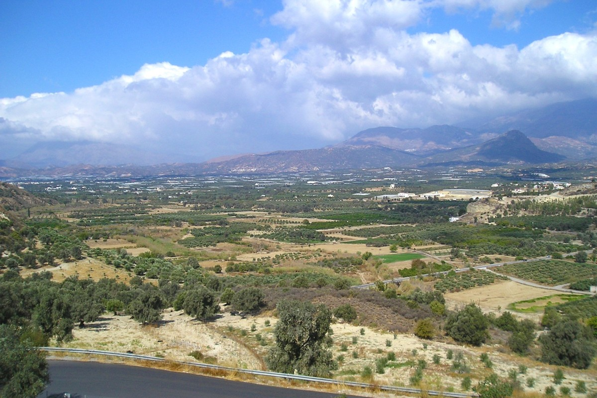 Messara-plain in Southcrete